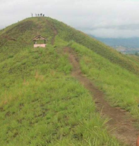 Foto gunung tungkuwiri di Kampung Doyo Lama, Distrik Waibu Kabupaten Jayapura